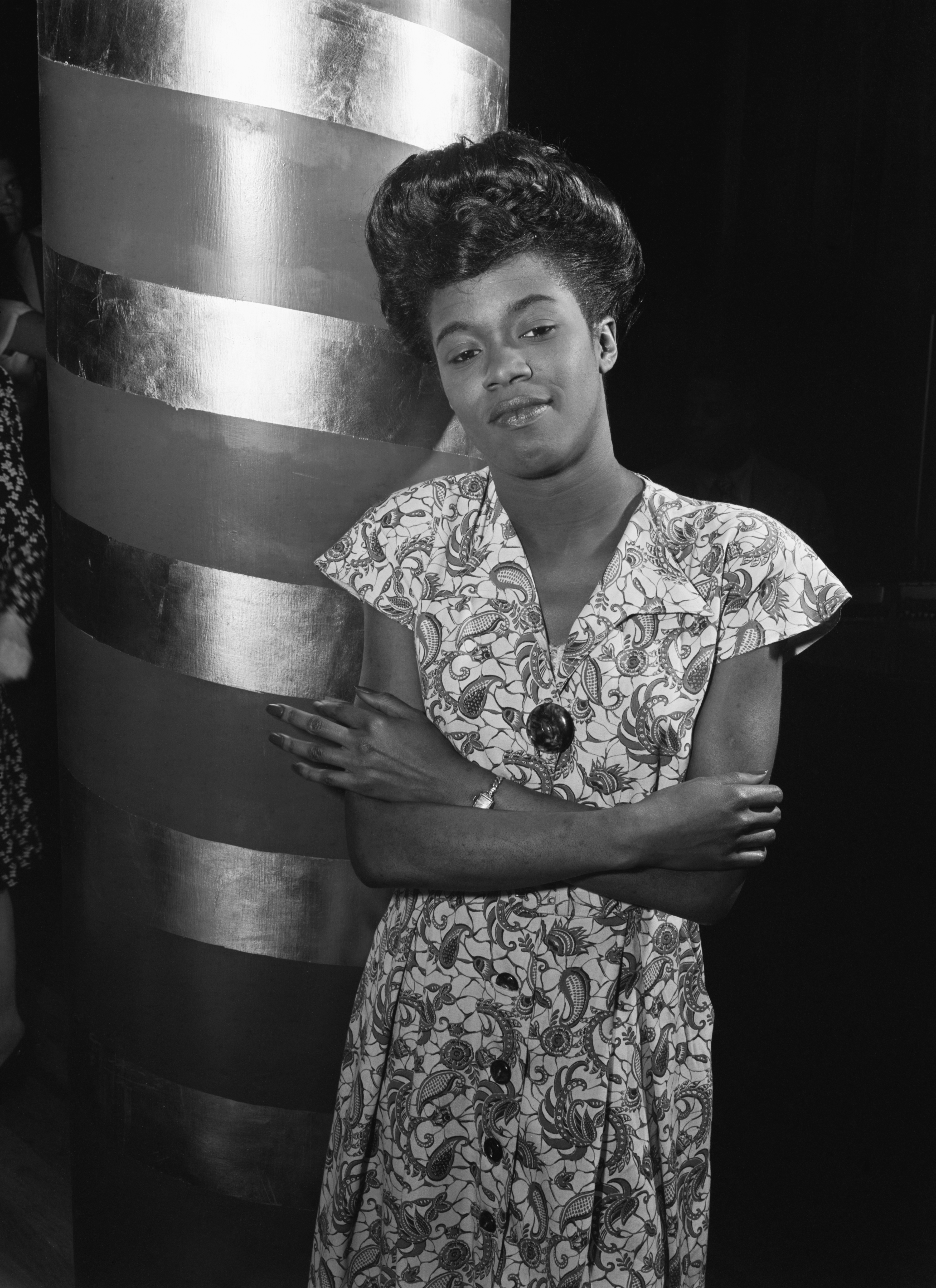 Sarah Vaughan at Cafe Society, NYC, ca. September 1946. Photography by William P. Gottlieb. Gottlieb took several photographs of Vaughan around the same time; the numbering is arbitrary.